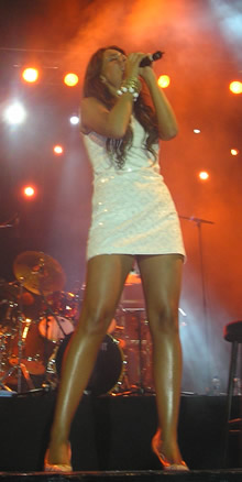 Spanish singer Lorena